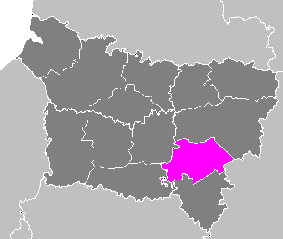 Maps of arrondissements and cantons of France: Arrondissement de Soissons.PNG